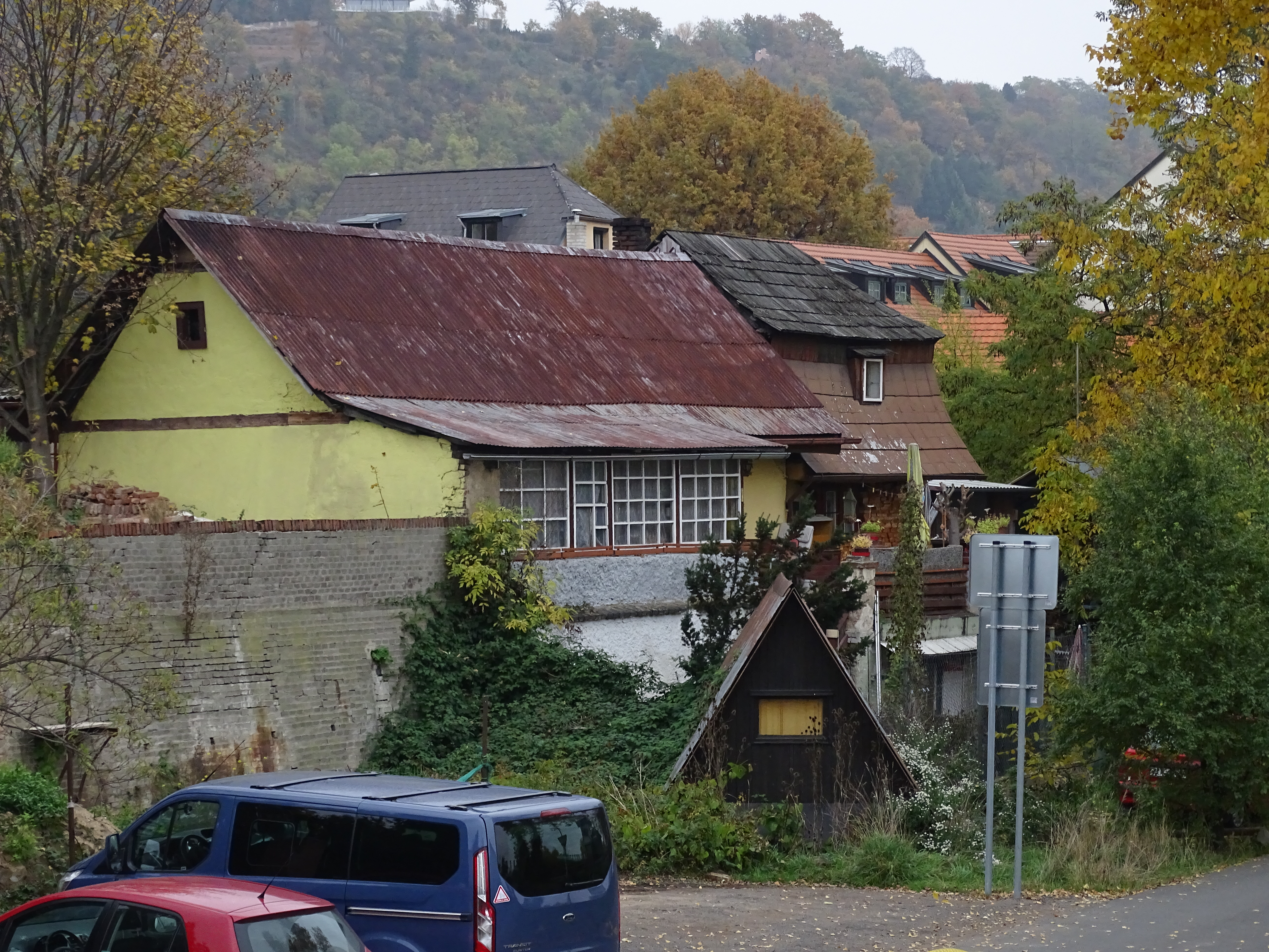 Prague-Troja, Czech Republic. Rybáře, Povltavská 15/56, from the footbridge.